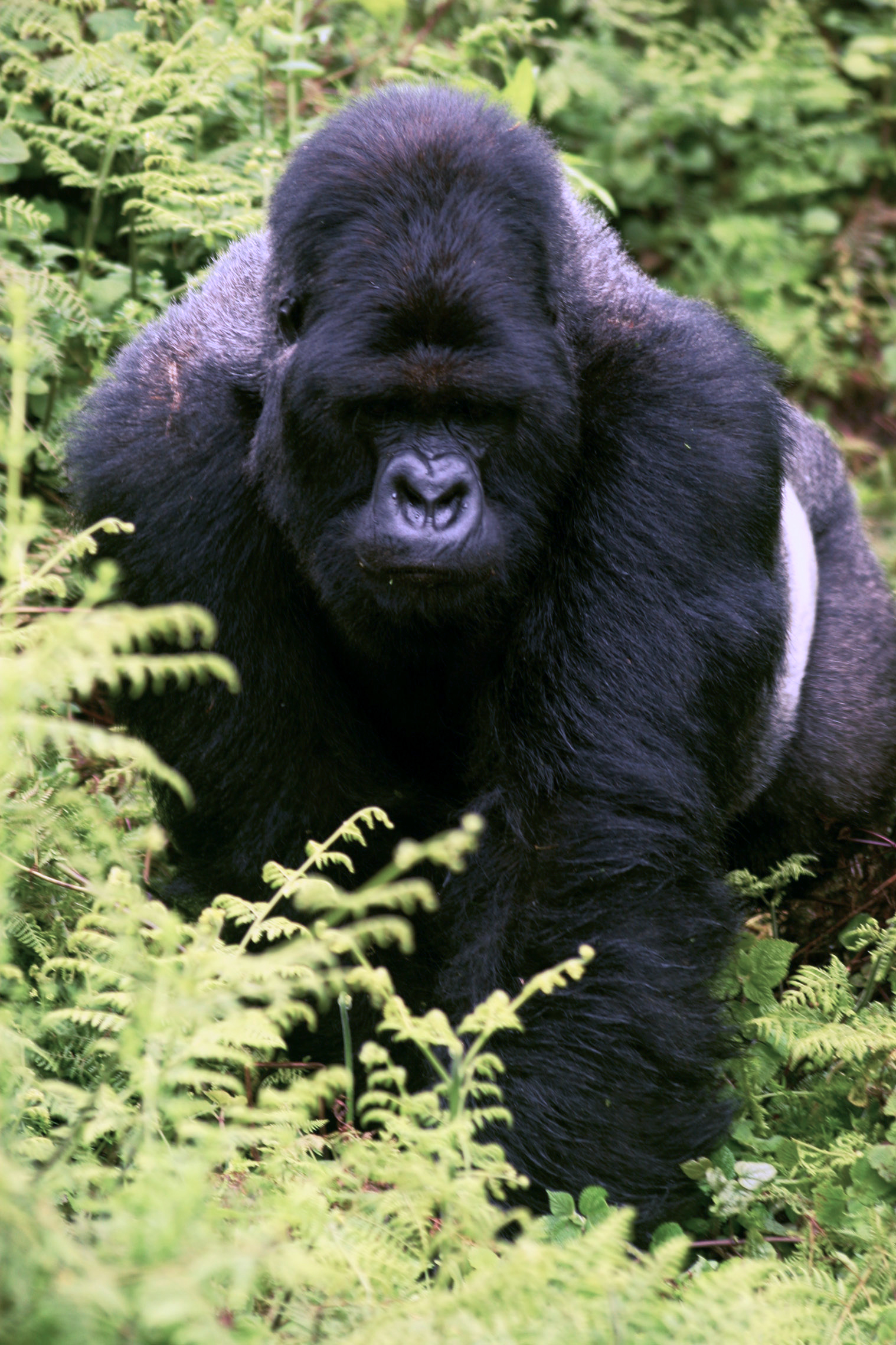 Mountain gorilla, RwandaWalking boss